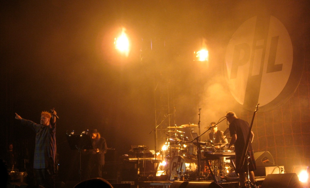 PiL - December 21, 2009 @ Brixton Academy - London, UK